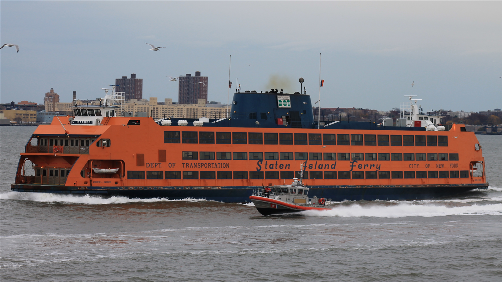 MV Andrew J. Barberi underway in Lower New York Bay. A US Coast Guard Response Boat - Medium can be seen in front of it.